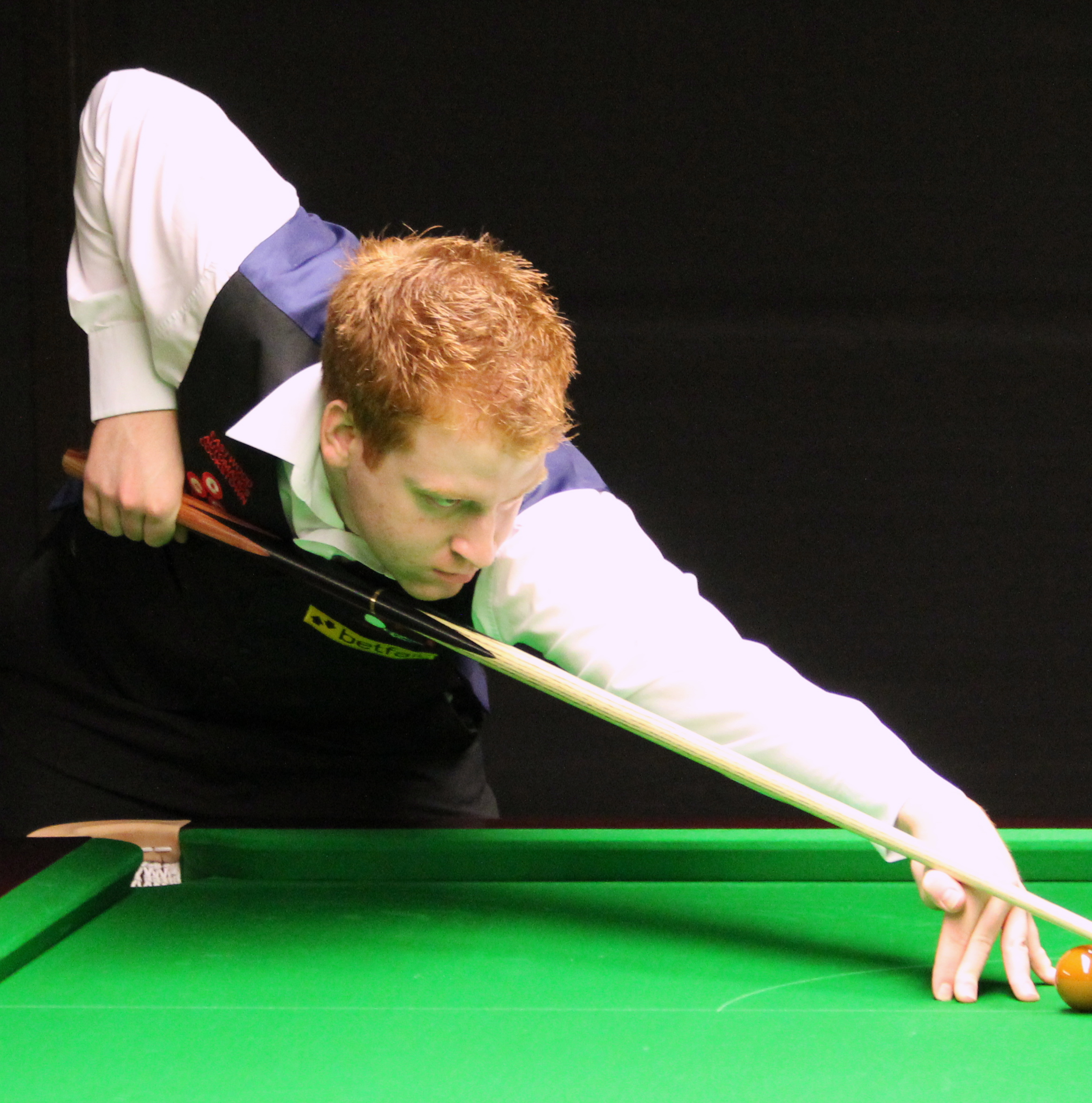 Jordan Brown beim Paul Hunter Classic 2012